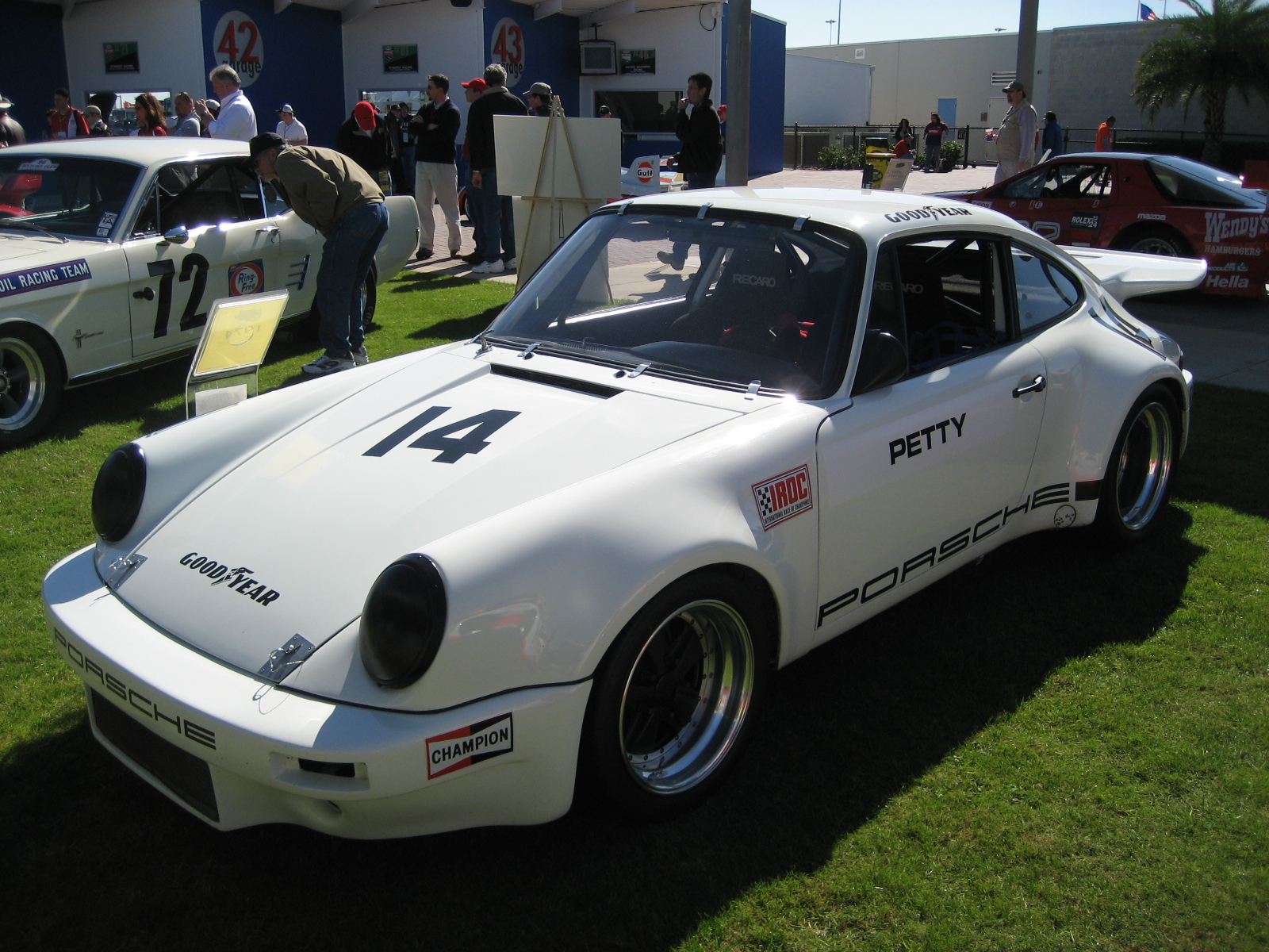 Photograph taken by myself at the 2007 Rolex 24 at Daytona, in a historics display. Porsche Carrera RSR driven by Richard Petty in IROC I.